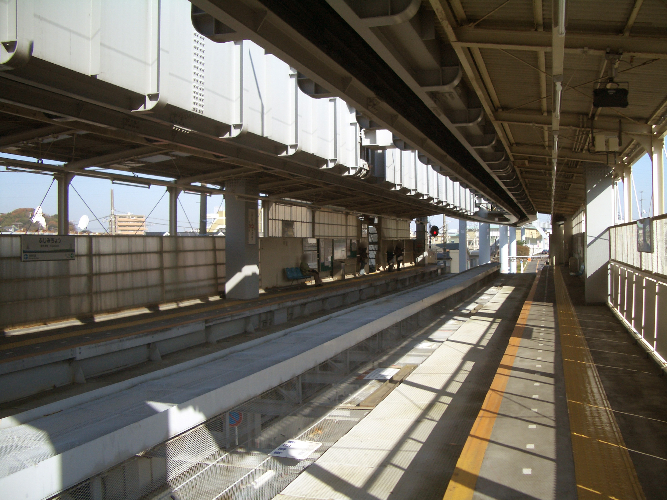 The platforms at Fujimichō Station on the Shōnan Monorail Line in Kamakura city, Kanagawa prefecture, Japan